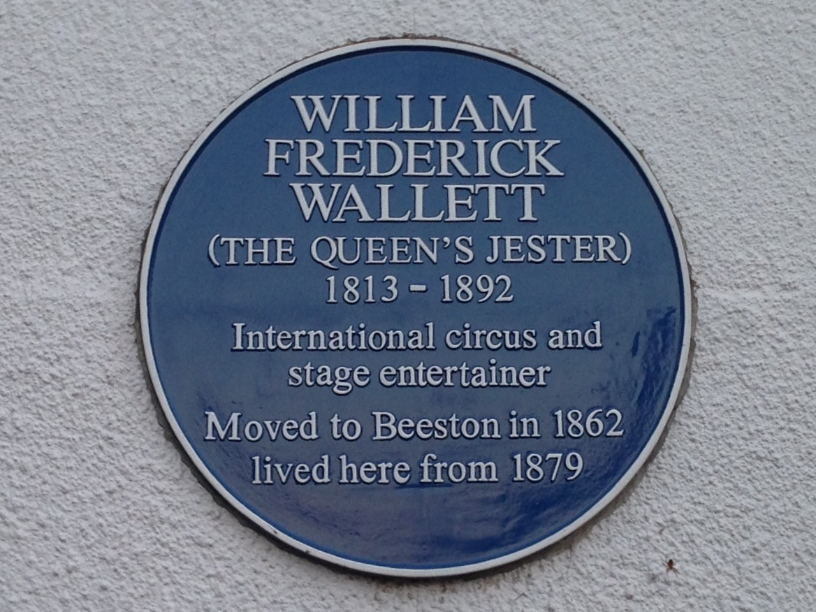 William Frederick Wallett plaque